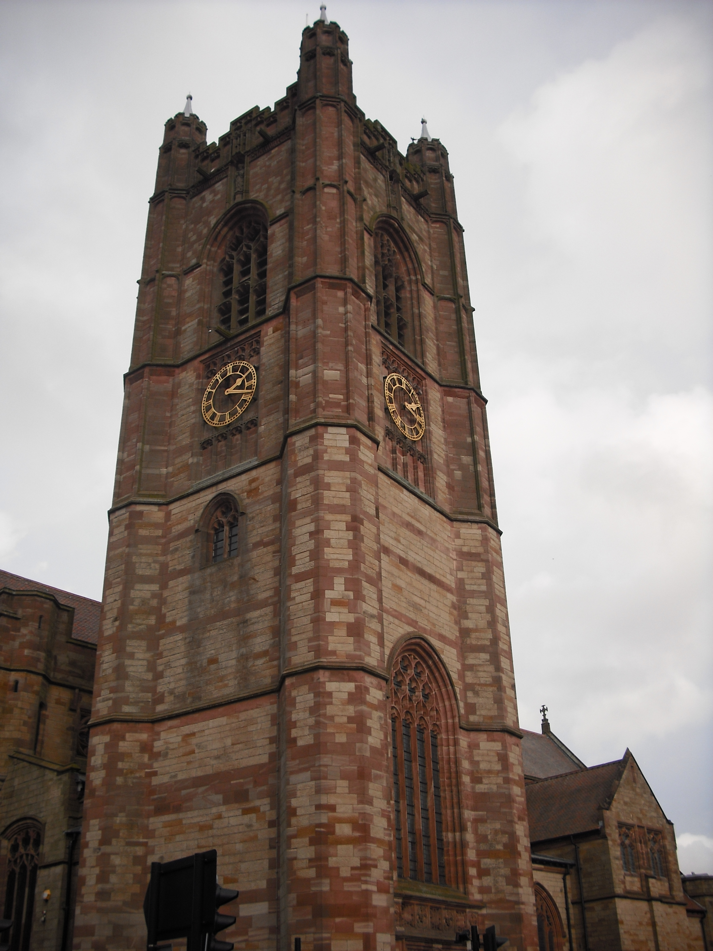 St John the Baptist's Church, Atherton, Greater Manchester